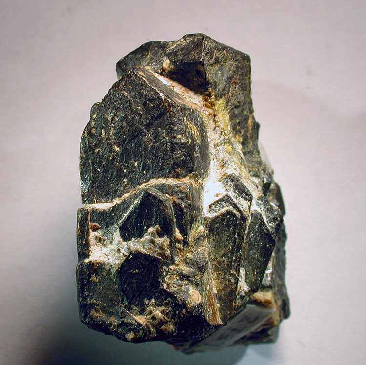 Samarskite-(Y) Locality: Tom Ross Mine, Yancey County, North Carolina, USA Samarskite-Y, cluster of crystals, 3.3 x 2.8 x 1.7 cm. Label says from Tom Ross Mine in Yancey Co., North Carolina. Ex-Richard Hauck Collection. Quite radioactive (about 0.9 millirems/hr.) K. Nash specimen and image.